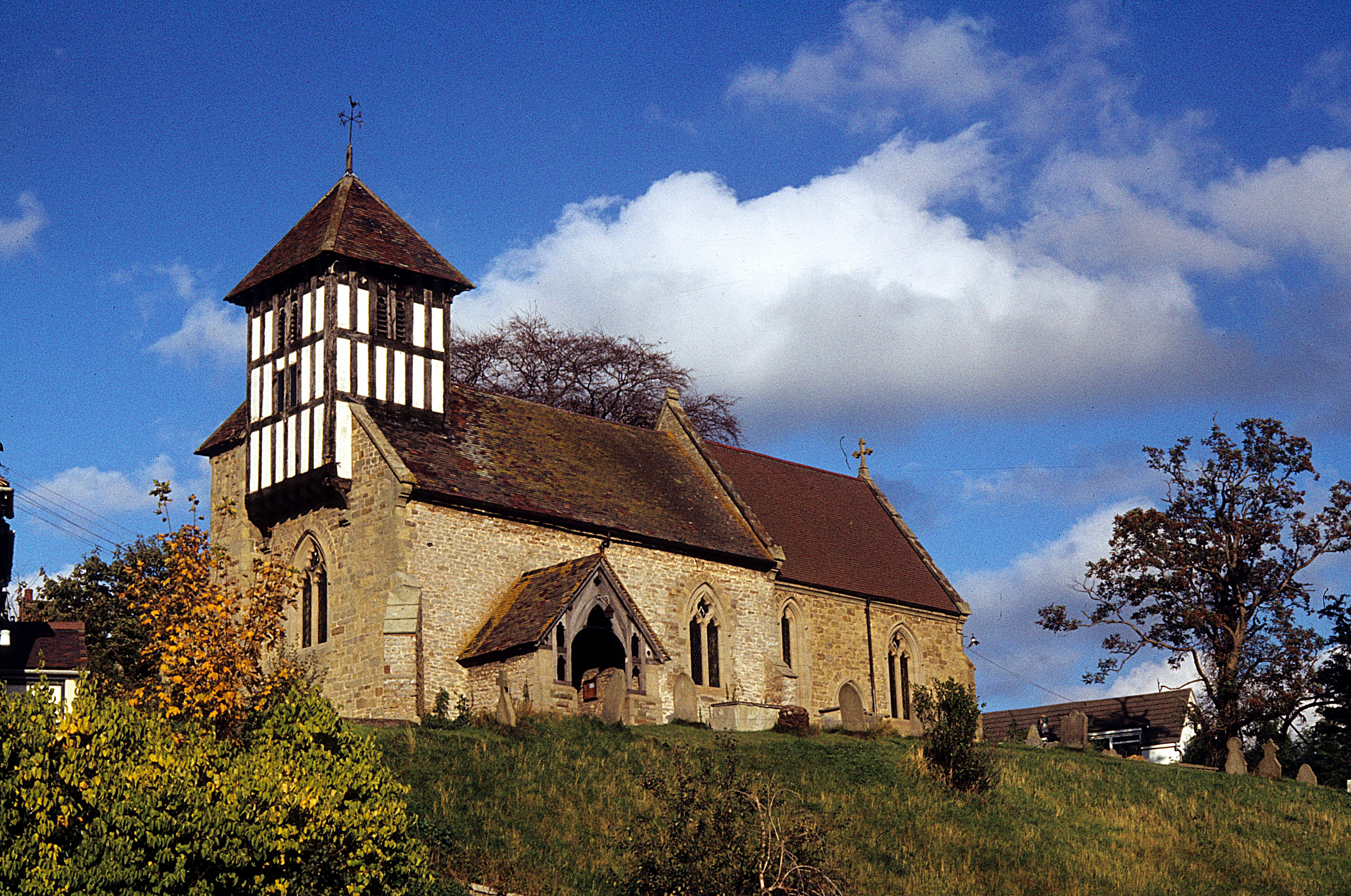 Church Of St Peter And St Paul Wikidata has entry Q17540977 with data related to this item.